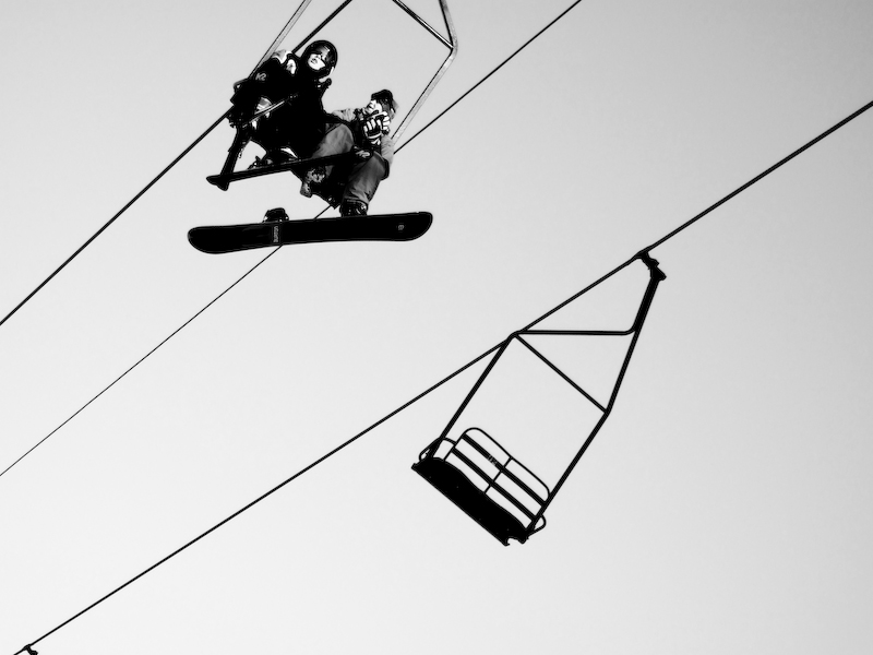 Taken at Mount Hood Meadows